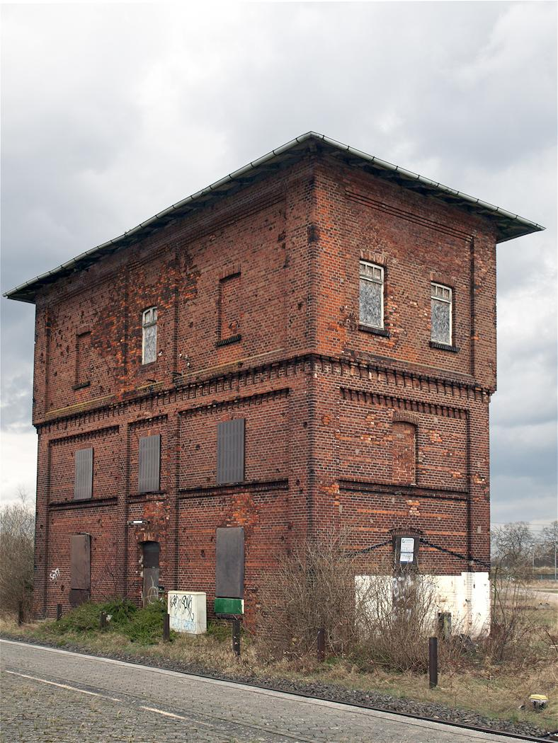 Büchen (Schleswig-Holstein, Germany), water tower of the railroad, photo 2010